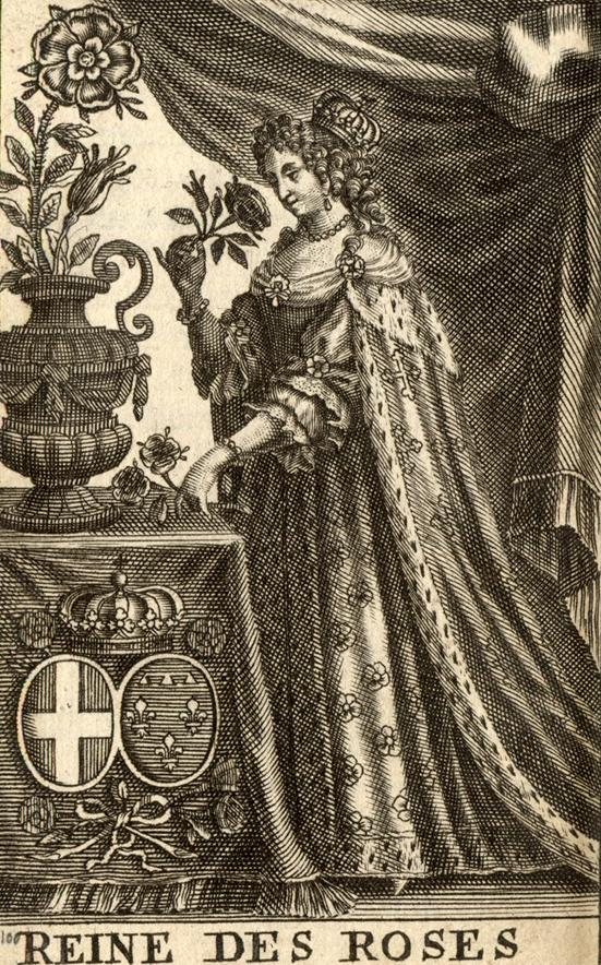 Portrait of Anne Marie d'Orléans, duchesse of Savoy as the Queen of Roses on a playing card